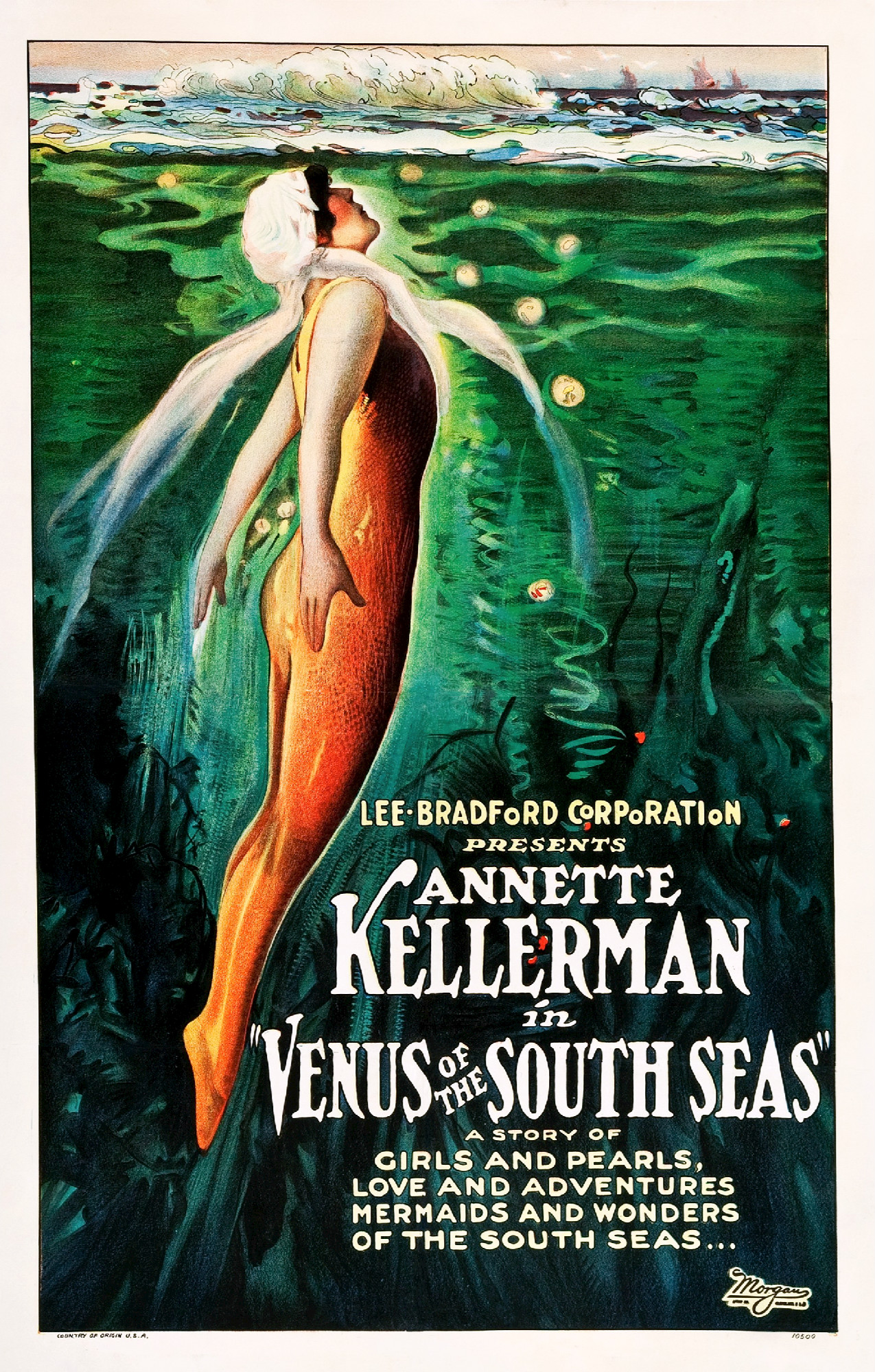 Poster from the American drama film Venus of the South Seas (1924). There are no copyright marks. At bottom left is Country of origin USA. At bottom right is 10500 and the logo of the Morgan Litho Co, they printed the poster.